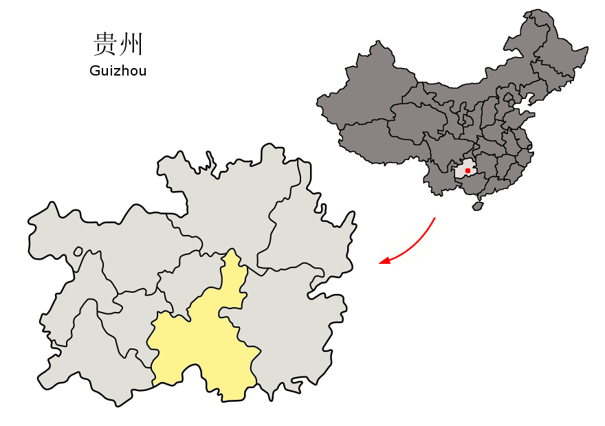 Location of Qiannan Prefecture (yellow) within Guizhou province of China Map drawn in november 2007 using various sources, mainly : Guizhou province administrative regions GIS data: 1:1M, County level, 1990 Guizhou Counties map from